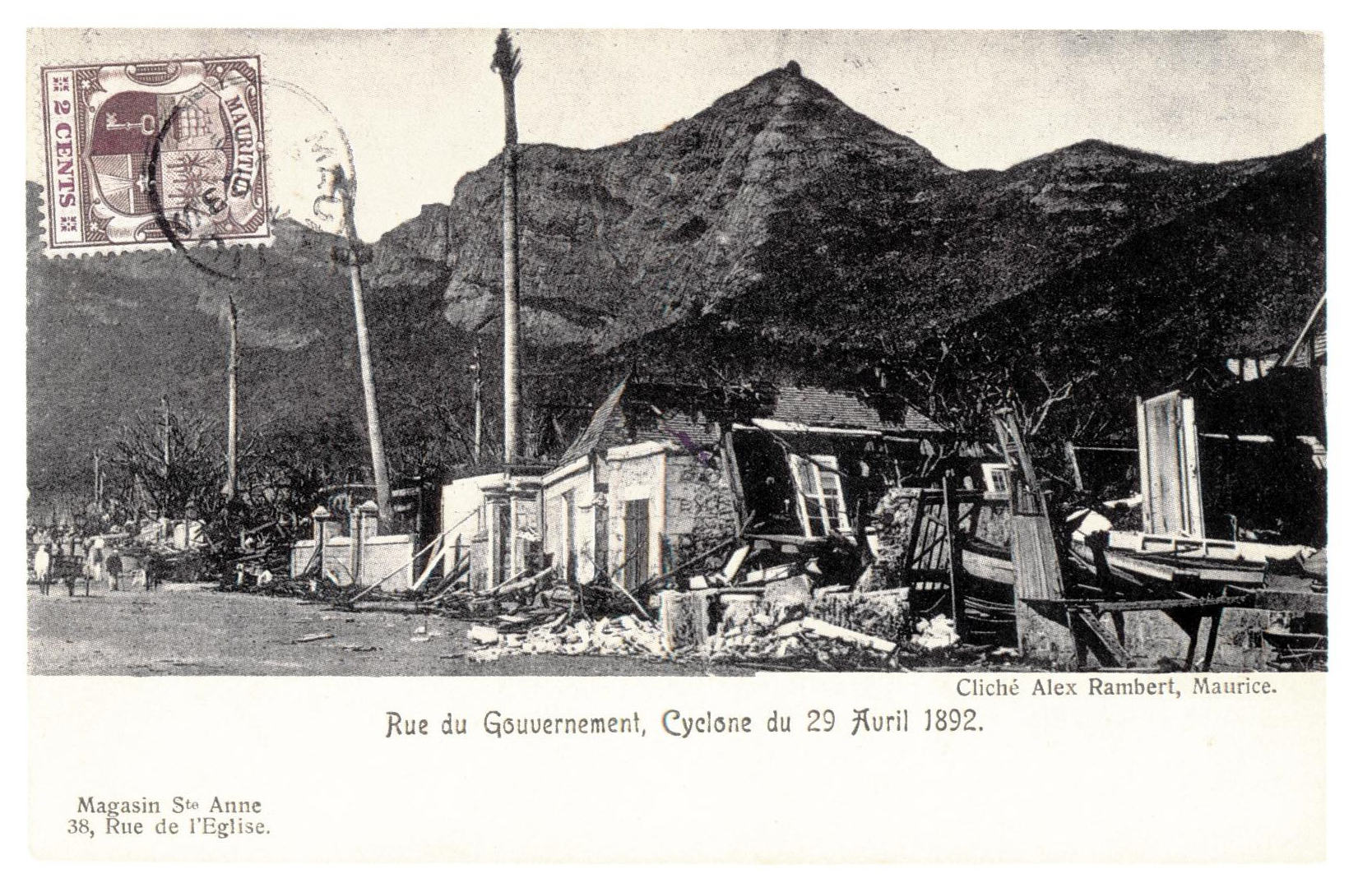 Port Louis, Rue du Gouvernement after the cyclone of 1892